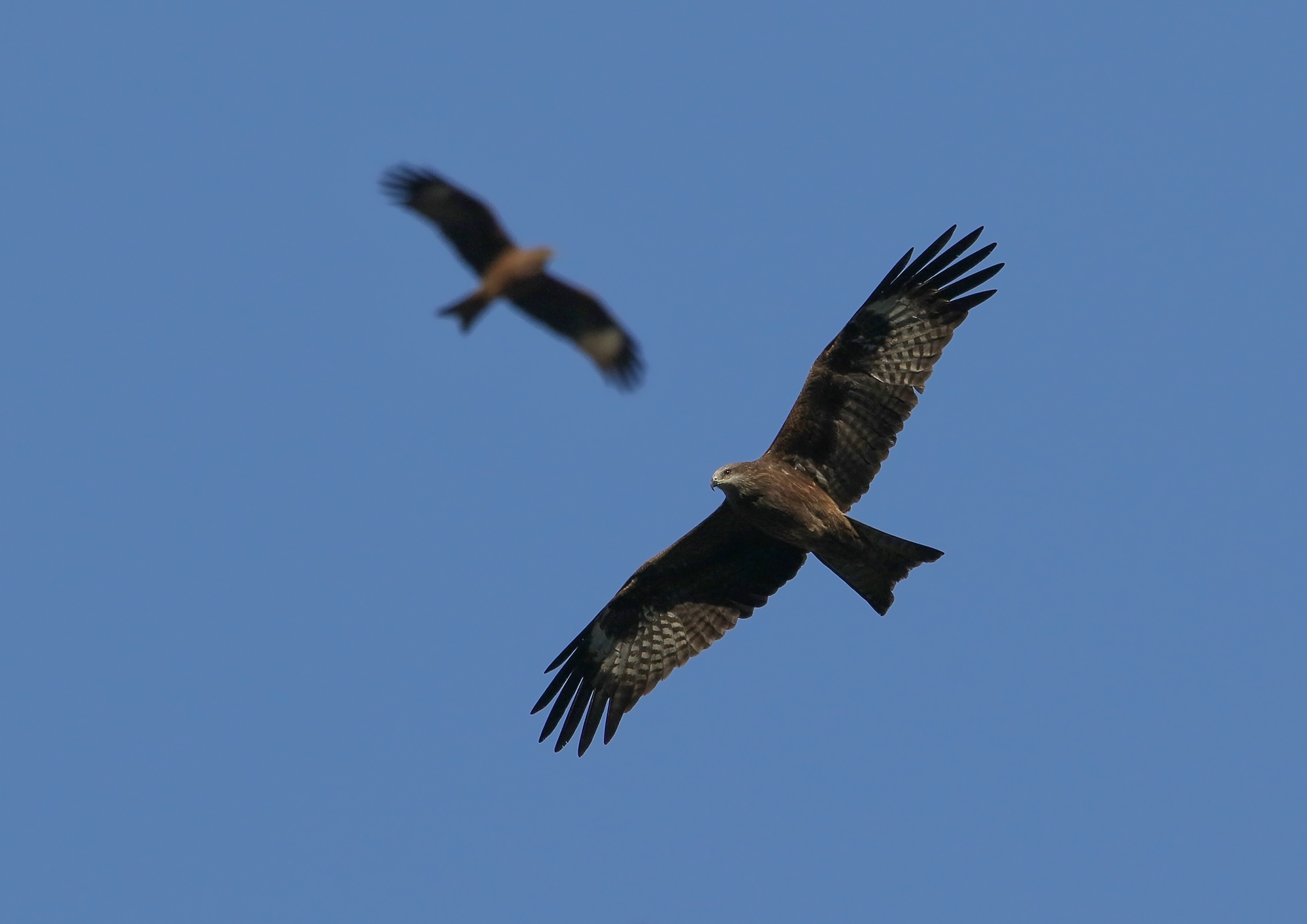 Black Kite (Milvus migrans) captured at Sultanabad, Gilgit, Gilgit-Baltistan, Pakistan with Canon EOS 7D Mark II